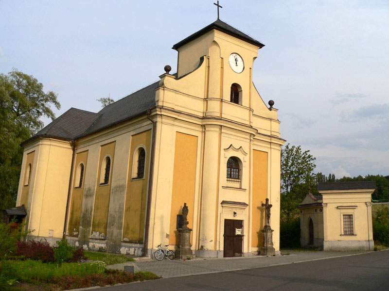 Saint Peter of Alcantara Church in Karviná-Doly (Karwina-Kopalnie), Czech Republic. It is statically corrupted due to the longtime coal mining activities, yet masses still occur here. Camera: Panasonic DMC-FZ20